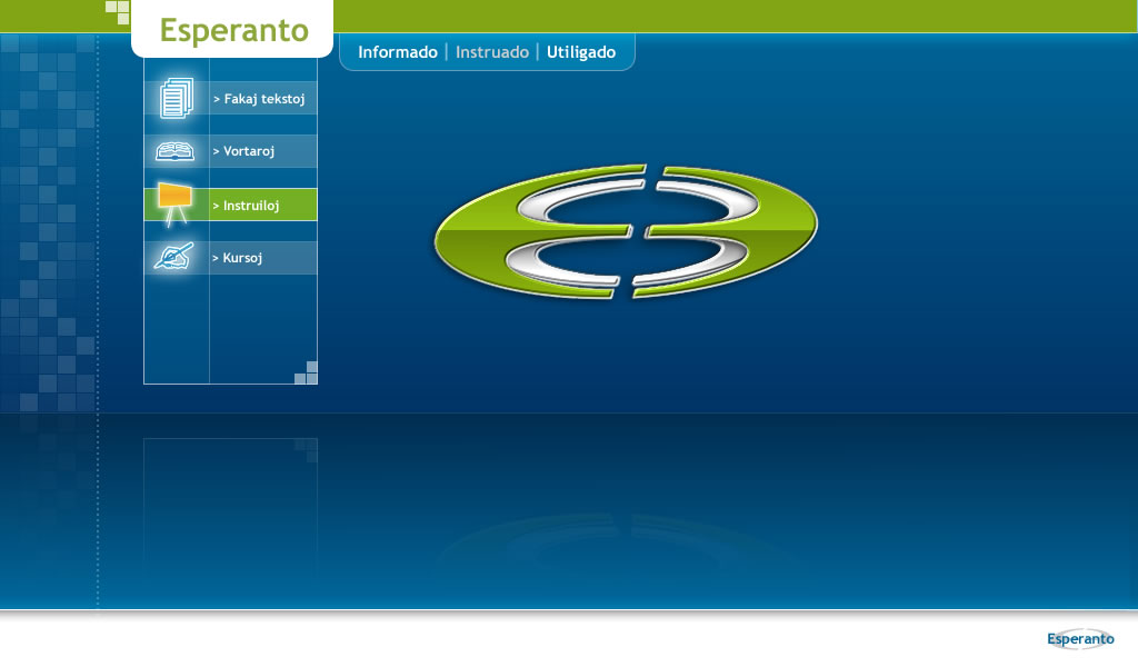 Menu of the "Esperanto Elektronike" DVD by E@I (2006).